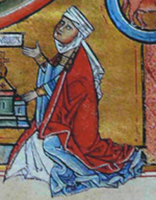 Sophie of Wittelsbach